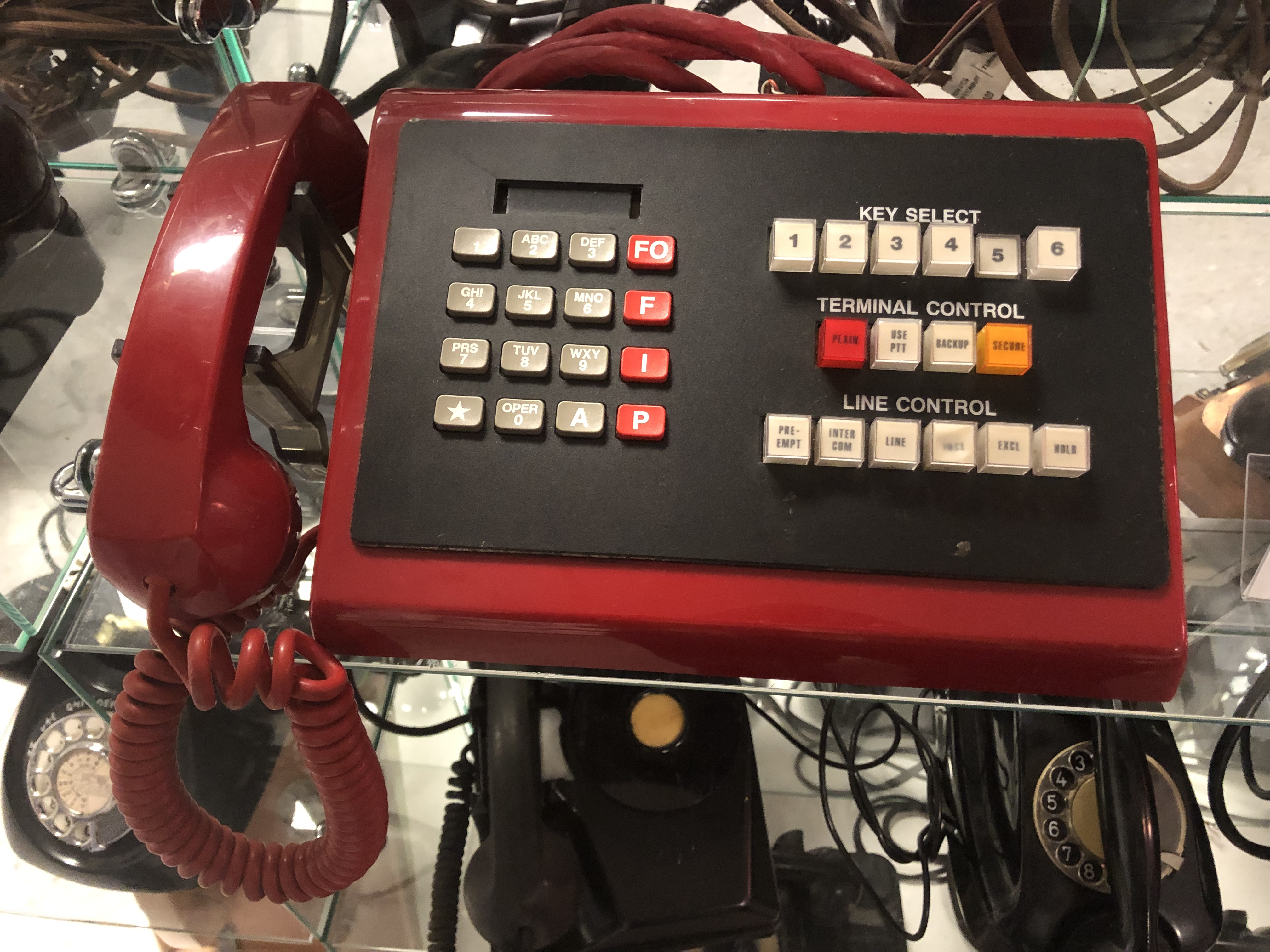 AUTOVON desk set at the Telephone Museum, Waltham, MA